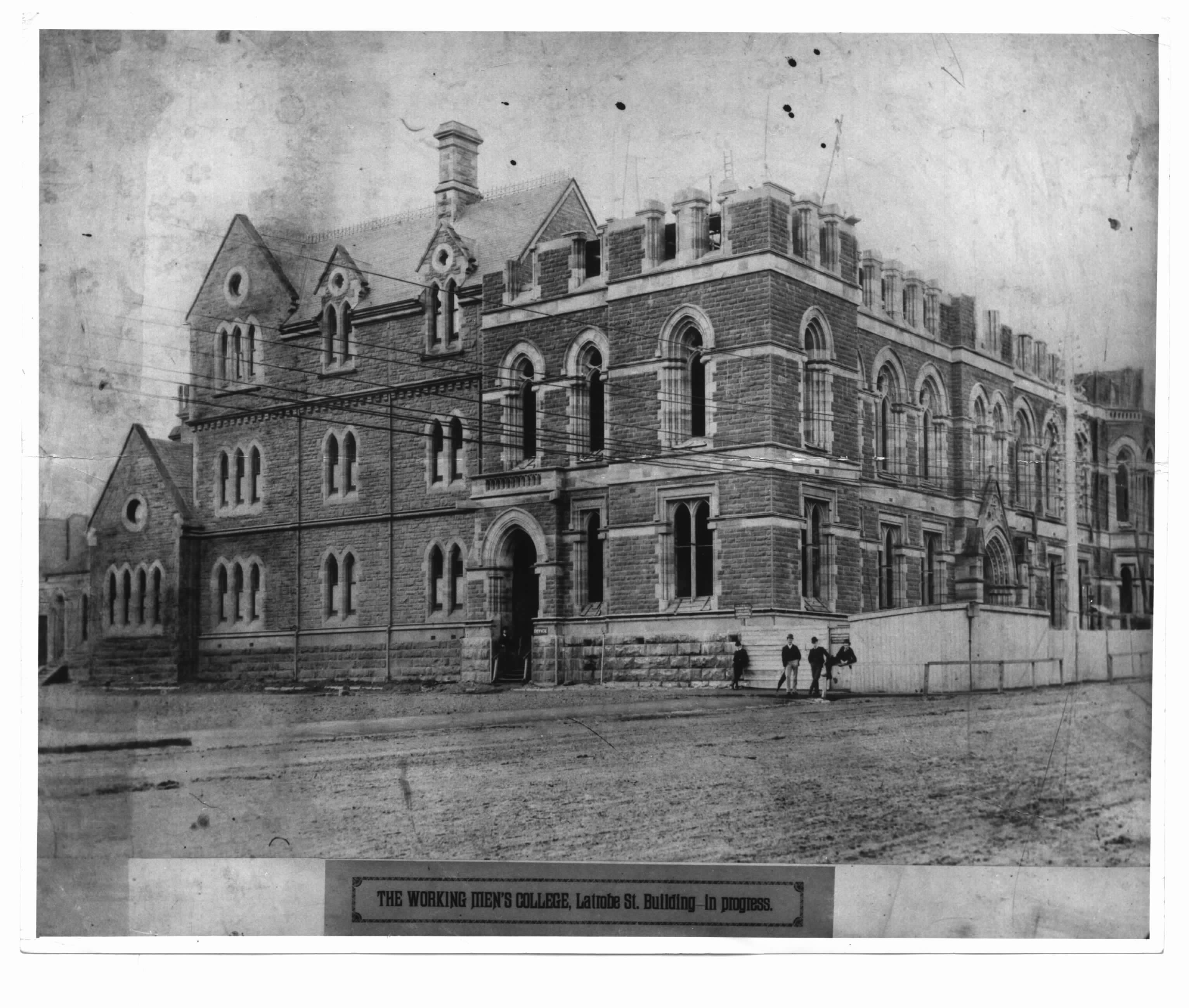 Construction of the Working Men's College of Melbourne in the 1880s (later RMIT).